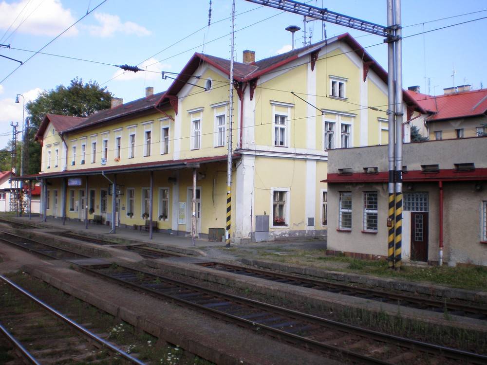 Tršnice (Cheb), Cheb District, Czech Republic; train station